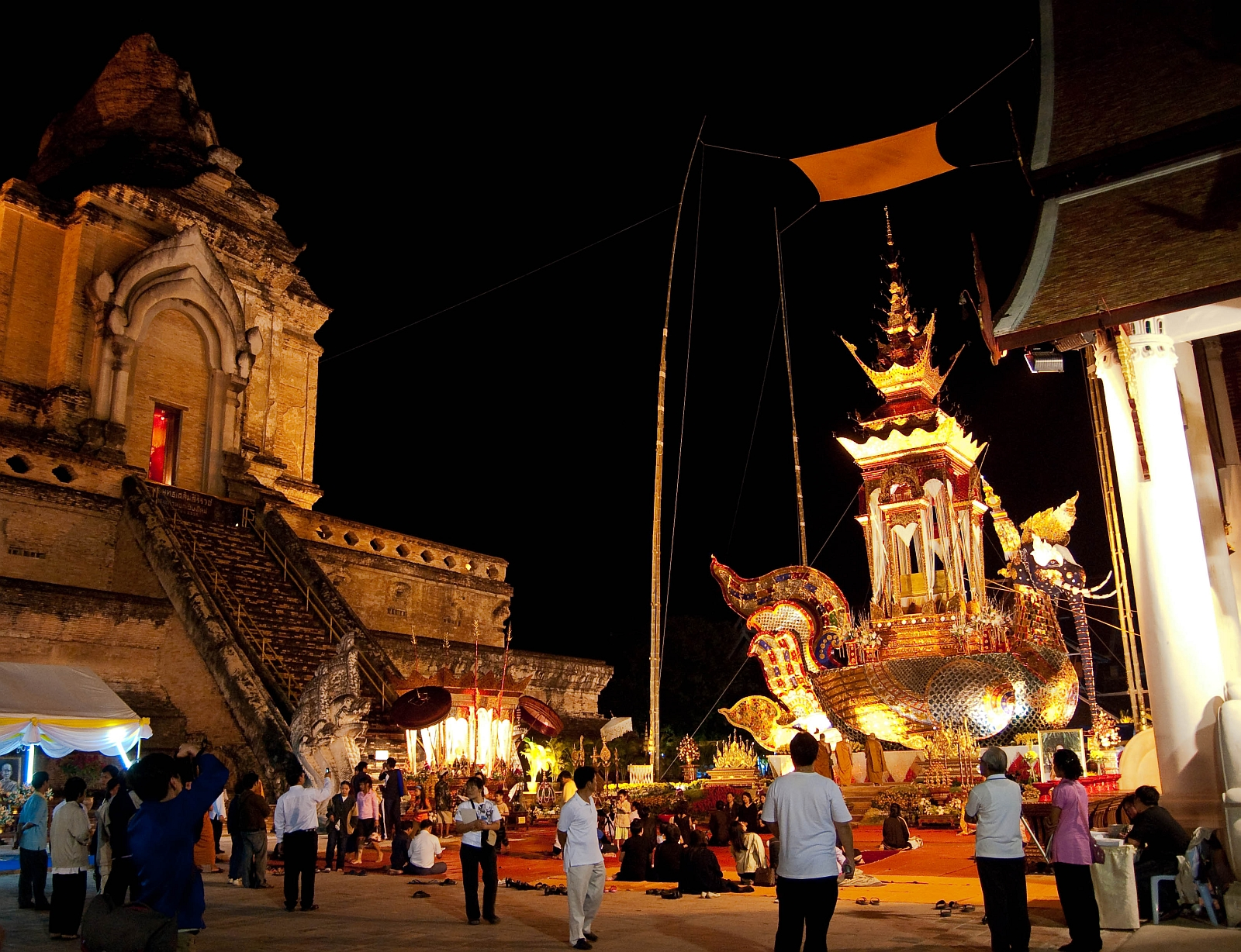 The funeral pyre for Chan Kusalo (the Buddhist "archbishop" of Northern Thailand) two days before the cremation ceremony at Wat Chedi Luang in Chiang Mai. The pyre is in the shape of a nok hatsidiling (a creature which is part elephant, part serpent and part bird from the mythical Himaphan forest). The gold leaf covered coffin is already placed inside the Burmese inspired mondop-like structure resting on top of the body of the creature. Chan Kusalo, November 26, 1917 - July 11, 2008